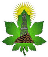 Emblem of Tartagal, a city of Salta Province, Argentina.